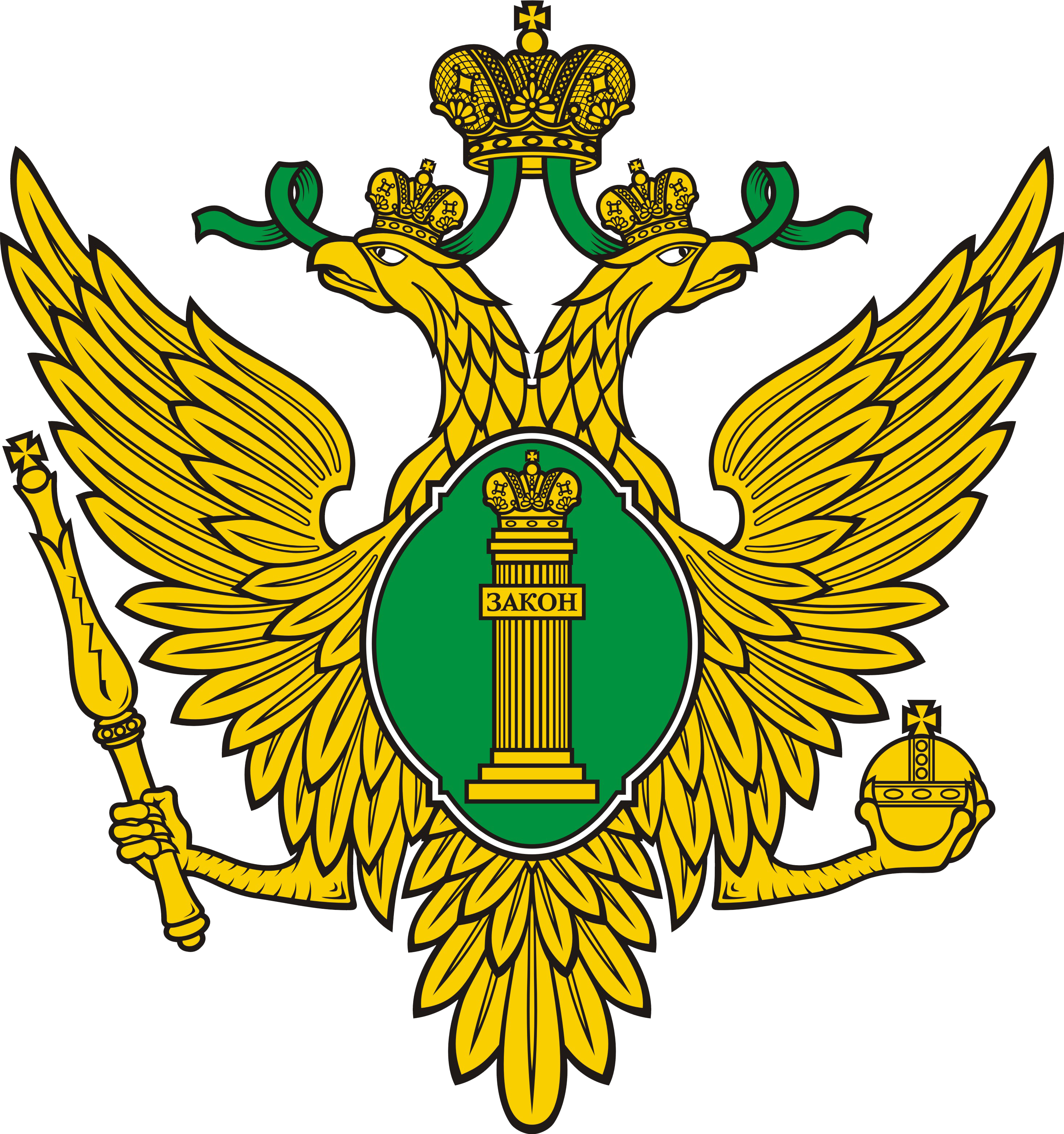 Emblem of Ministry of Justice of Russia